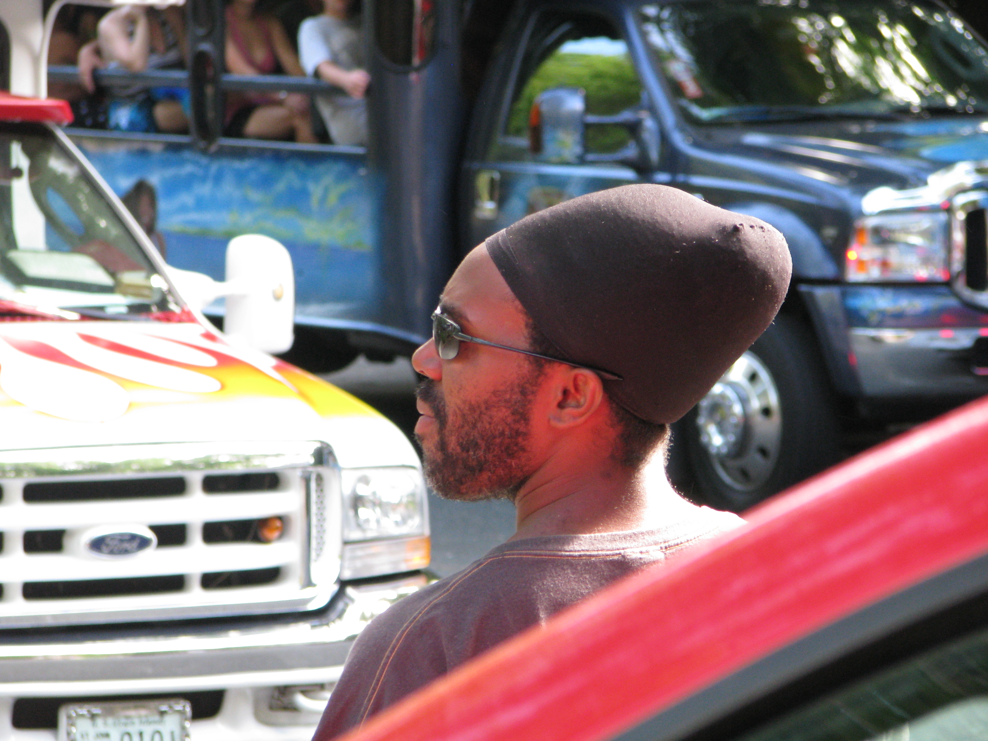 A man directs traffic on St. Johns Island in the Caribbean. This photo was taken on July 9, 2008 in Cruz Bay, Saint John Island.